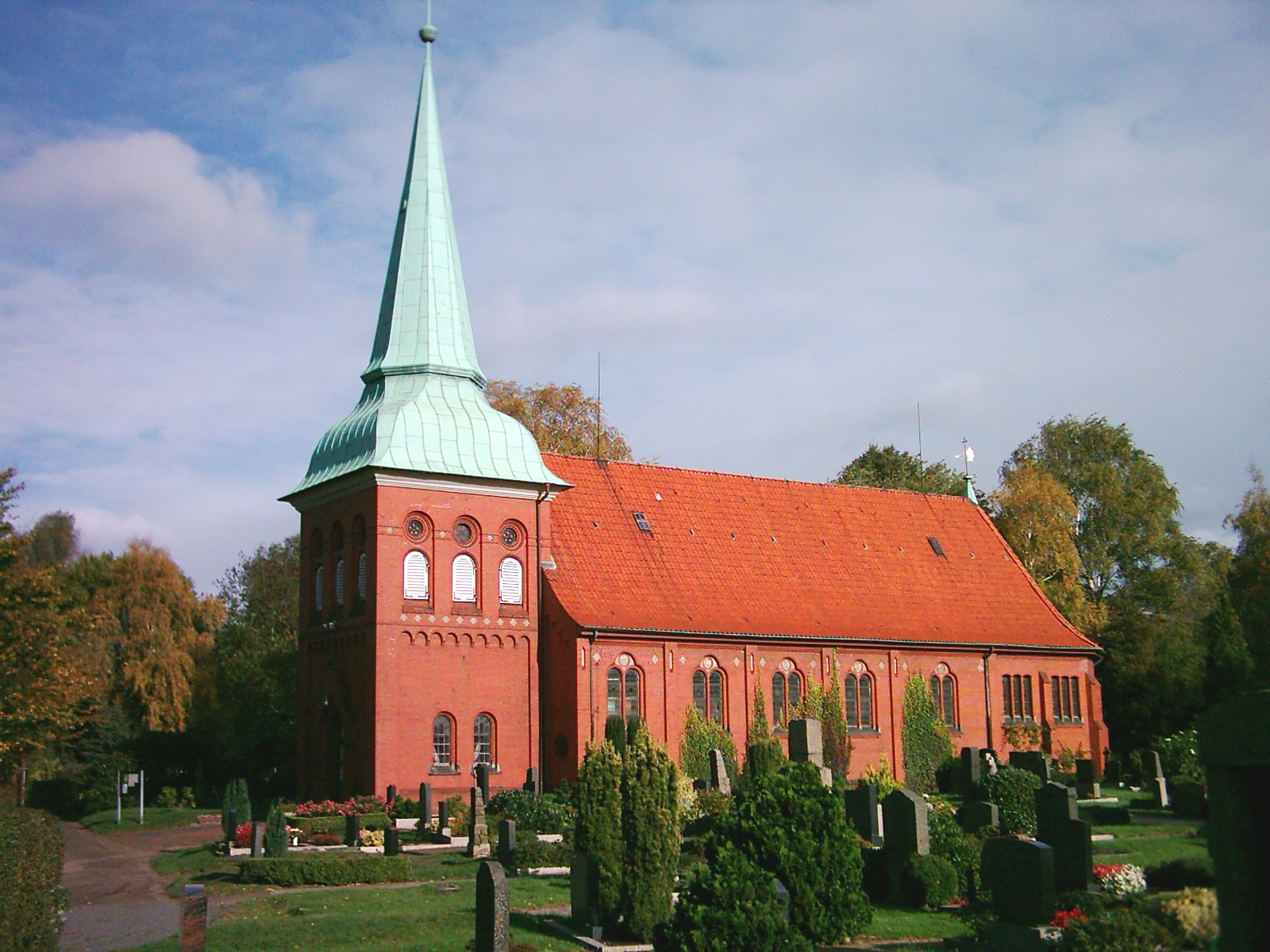 St. Maria-Magdalena-Church in Hamburg, Germany. (Info plaque (german) see Image:St.Maria-Magdalena-Kirche Tafel.jpg)